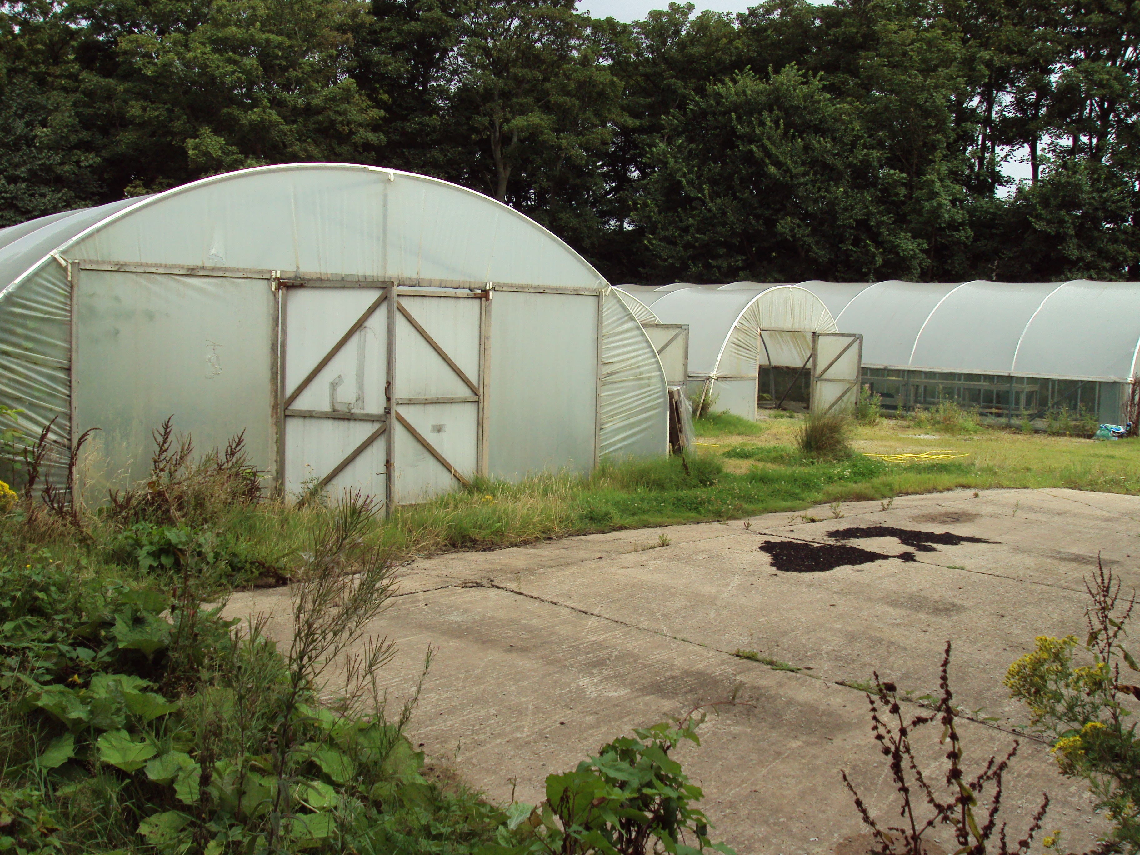 Plastic tunnel greenhouses at Hesketh Park, Southport, Merseyside, England.